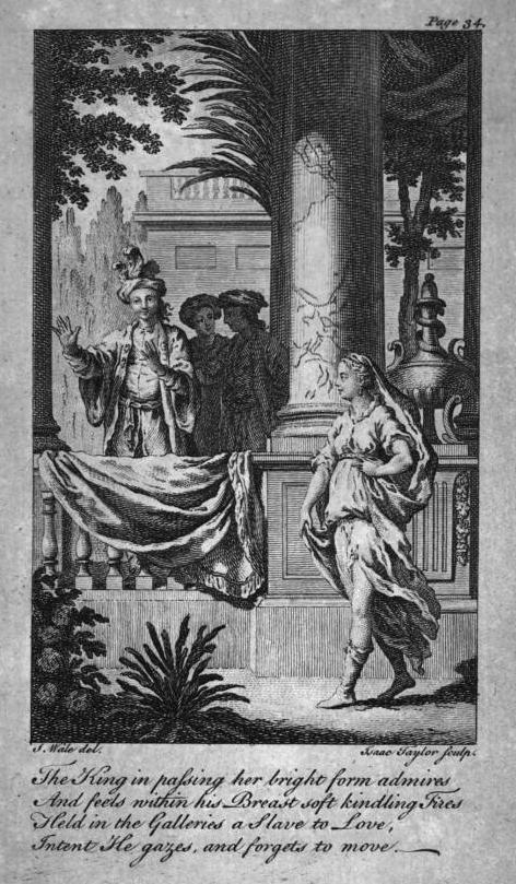 Isaac Taylor's illustration for Samuel Croxall The Fair Circassian, 1765